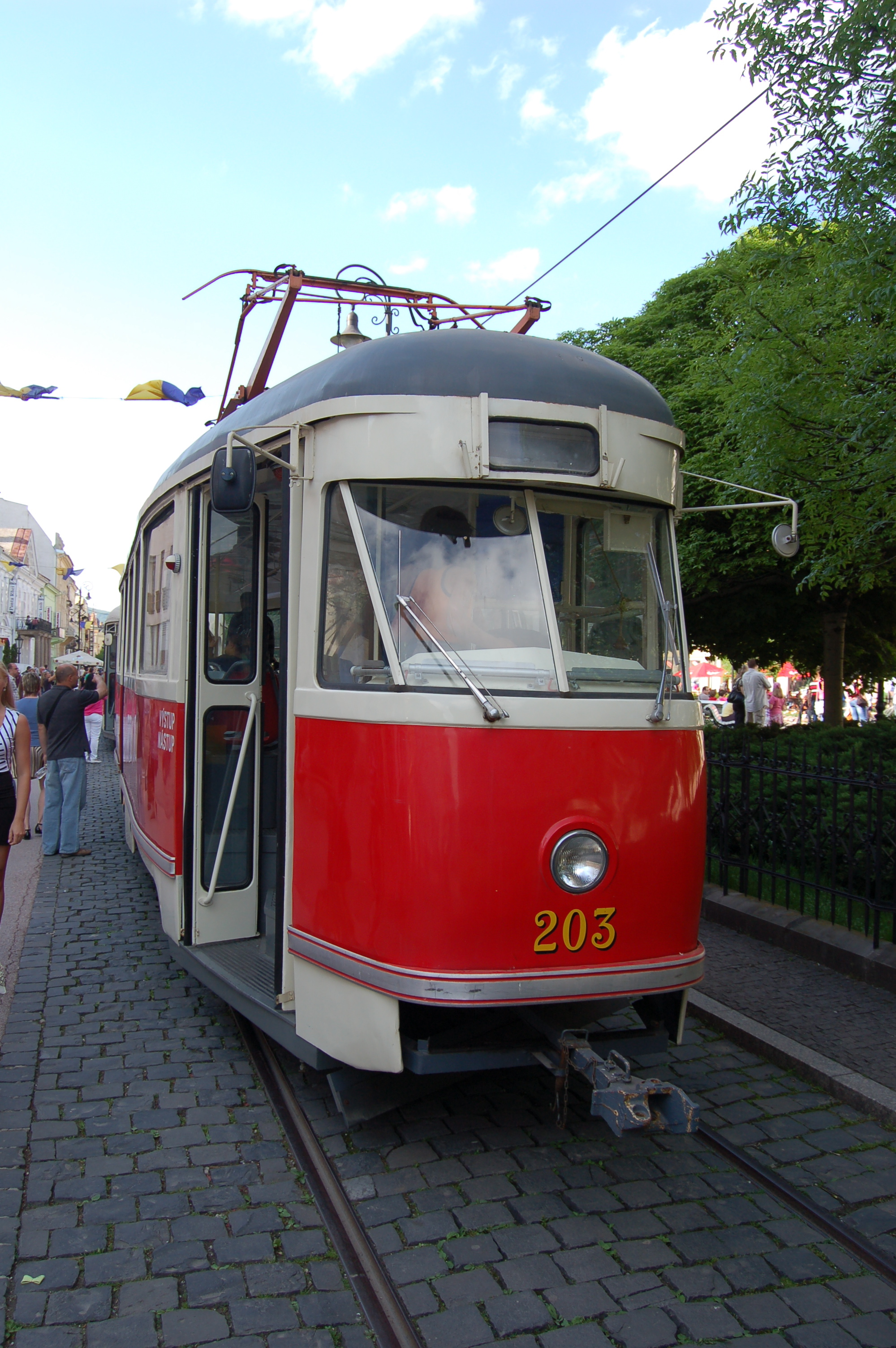 Tatra tram T1